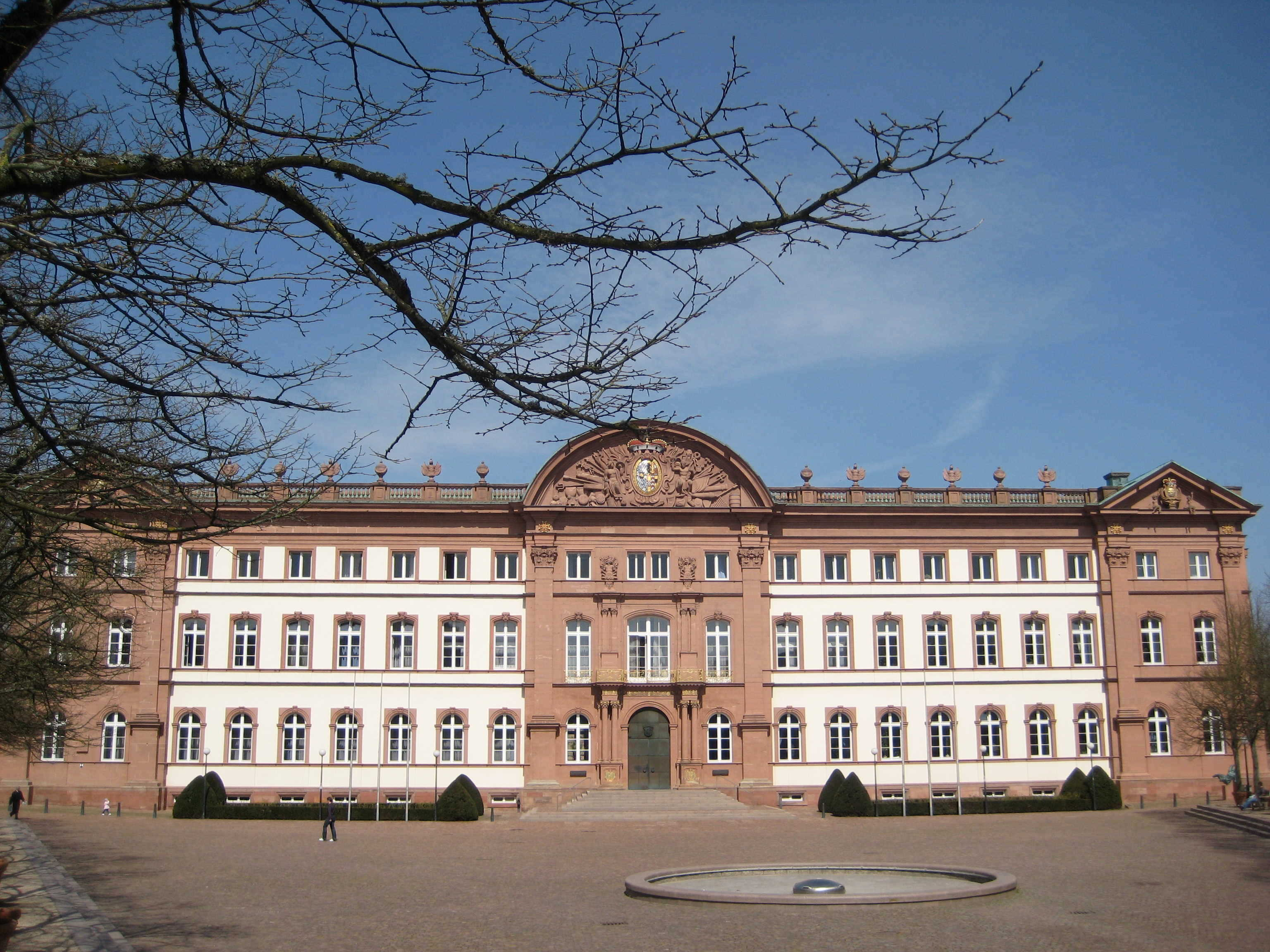 Fronst aspect of Zweibrücken castle in Germany